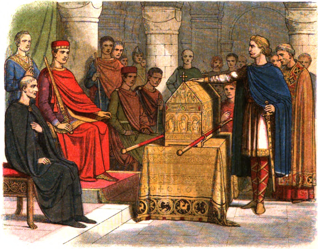 Harold Godwinson swears fealty to William the Conqueror.